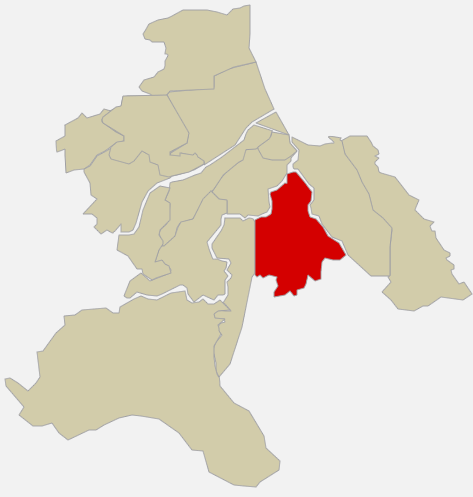 There was Odate village until 1958. Now it is part of Hachinohe city.